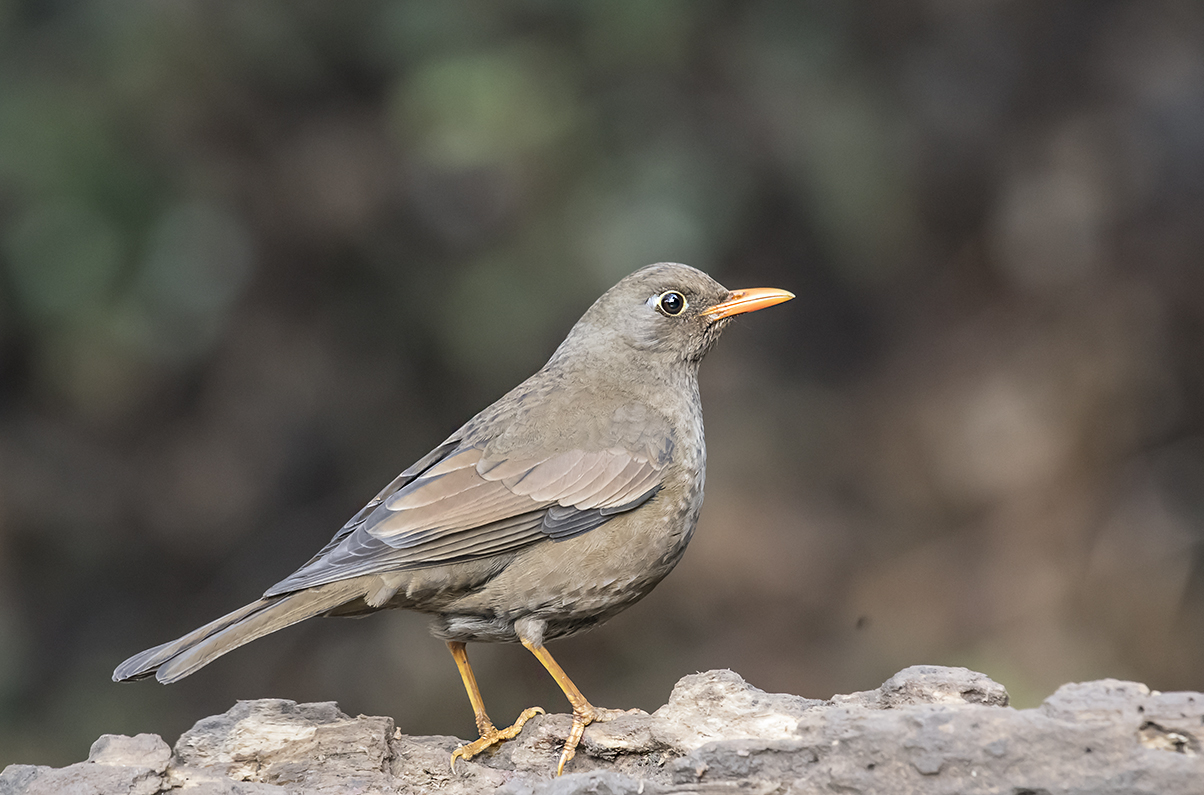 Grey-winged Blackbird - Female